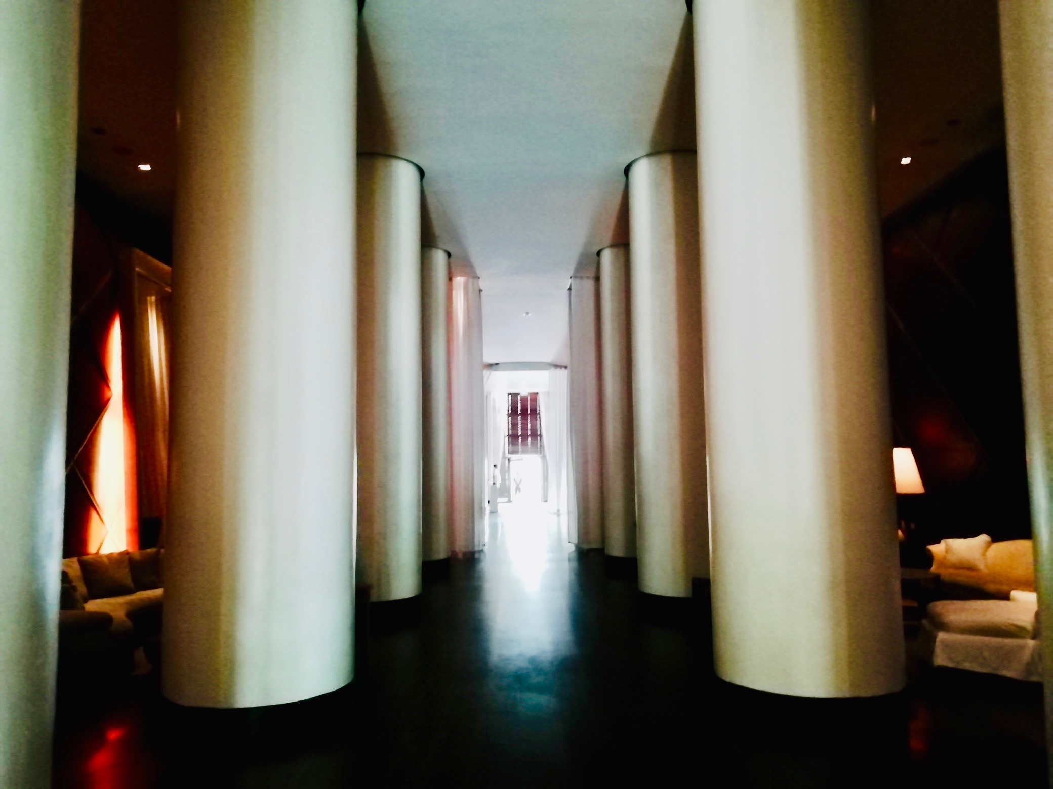 The Delano Hotel, (their exotic Karnak Hall), South Beach, Miami